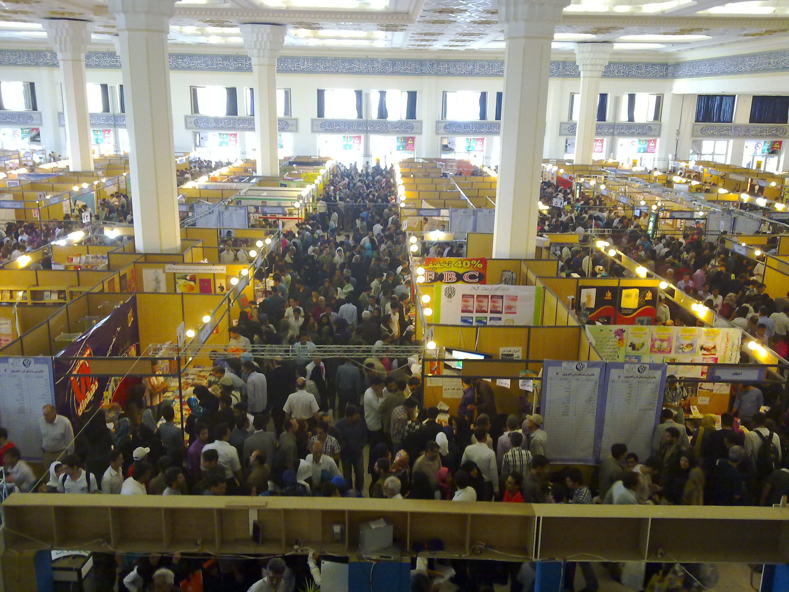 23rd Tehran international book fair.main salon(General book) in Mosala